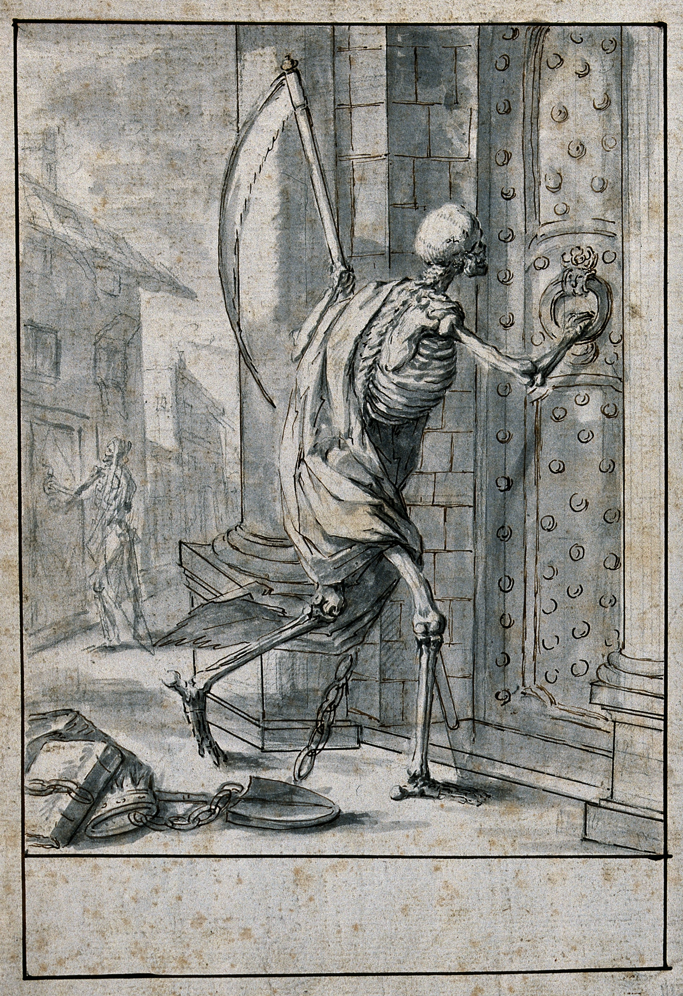 Death knocks at the doors of both the poor and the rich. Pen and ink drawing. Iconographic Collections